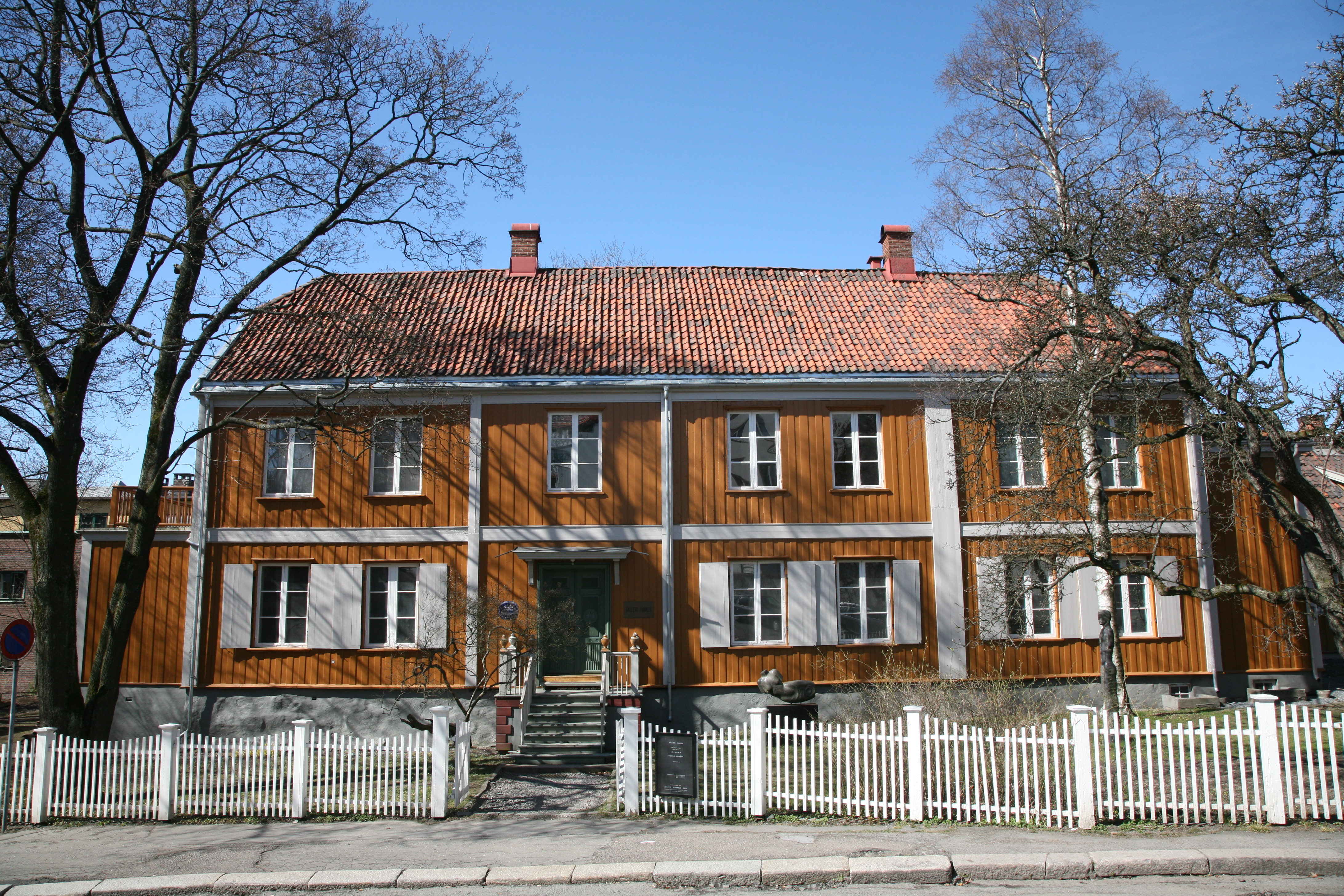 Main building of Lille Frogner in Lille Frogner Alle In Oslo. Building is from the 1790s. Was buildt by Generalkrigskommissær Friedrich Gotschalck Haxthausen. The building is listed.